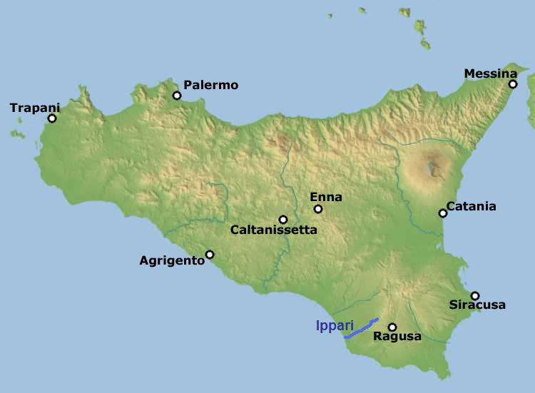 Mapof river Ippari in Sicily